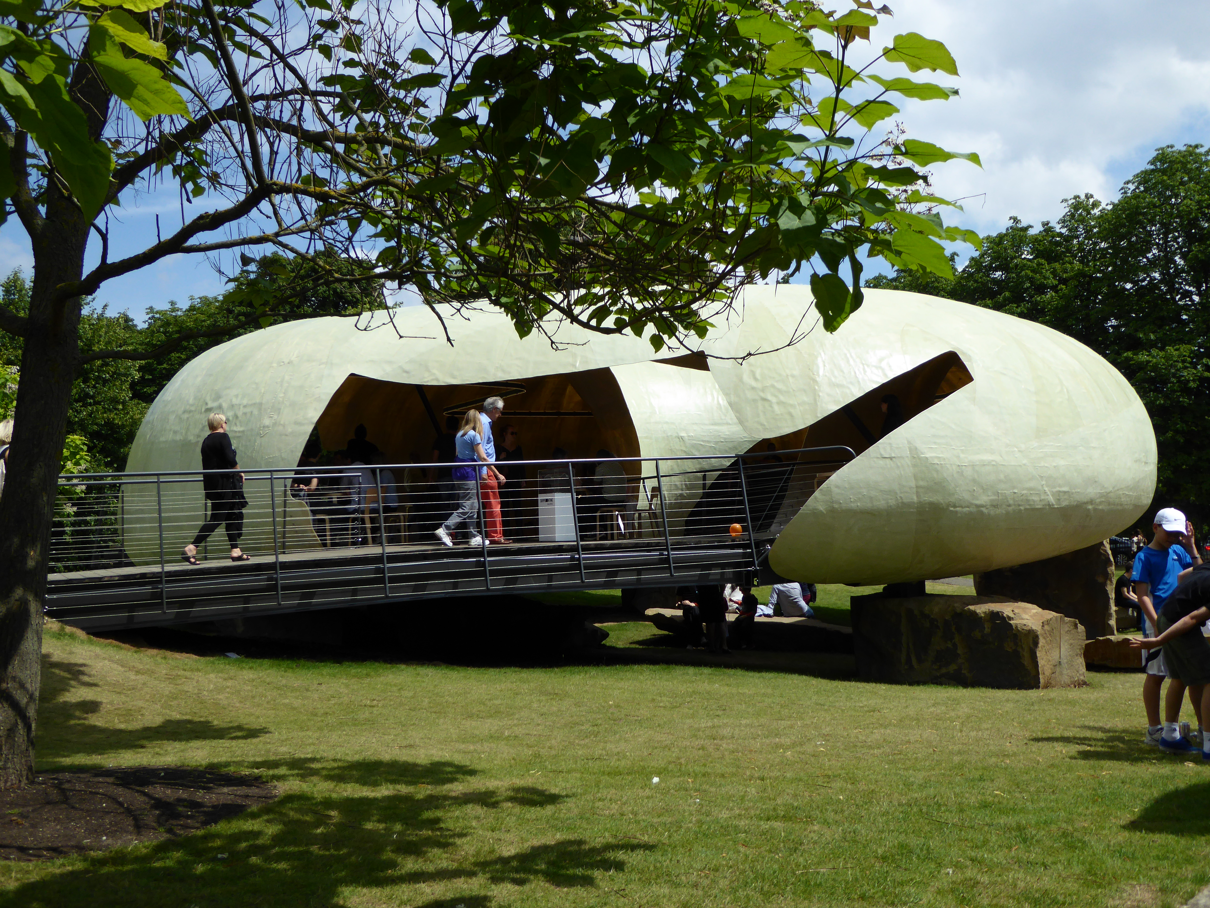 Serpentine Gallery Pavilion 2014 by Smiljan Radic, Serpentine Gallery, Kensington Gardens, London, England, July 2014